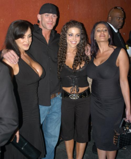 April 5 2007: XRCO Awards 2007.